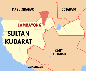 Map of the Sultan Kudarat showing the location of Lambayong